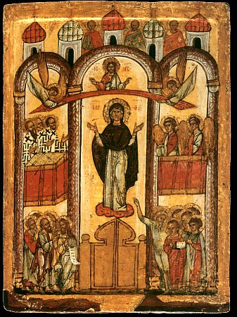 Russian icon of Pokrov (The Protection of Or Lady and Ever-Virgin Mary)